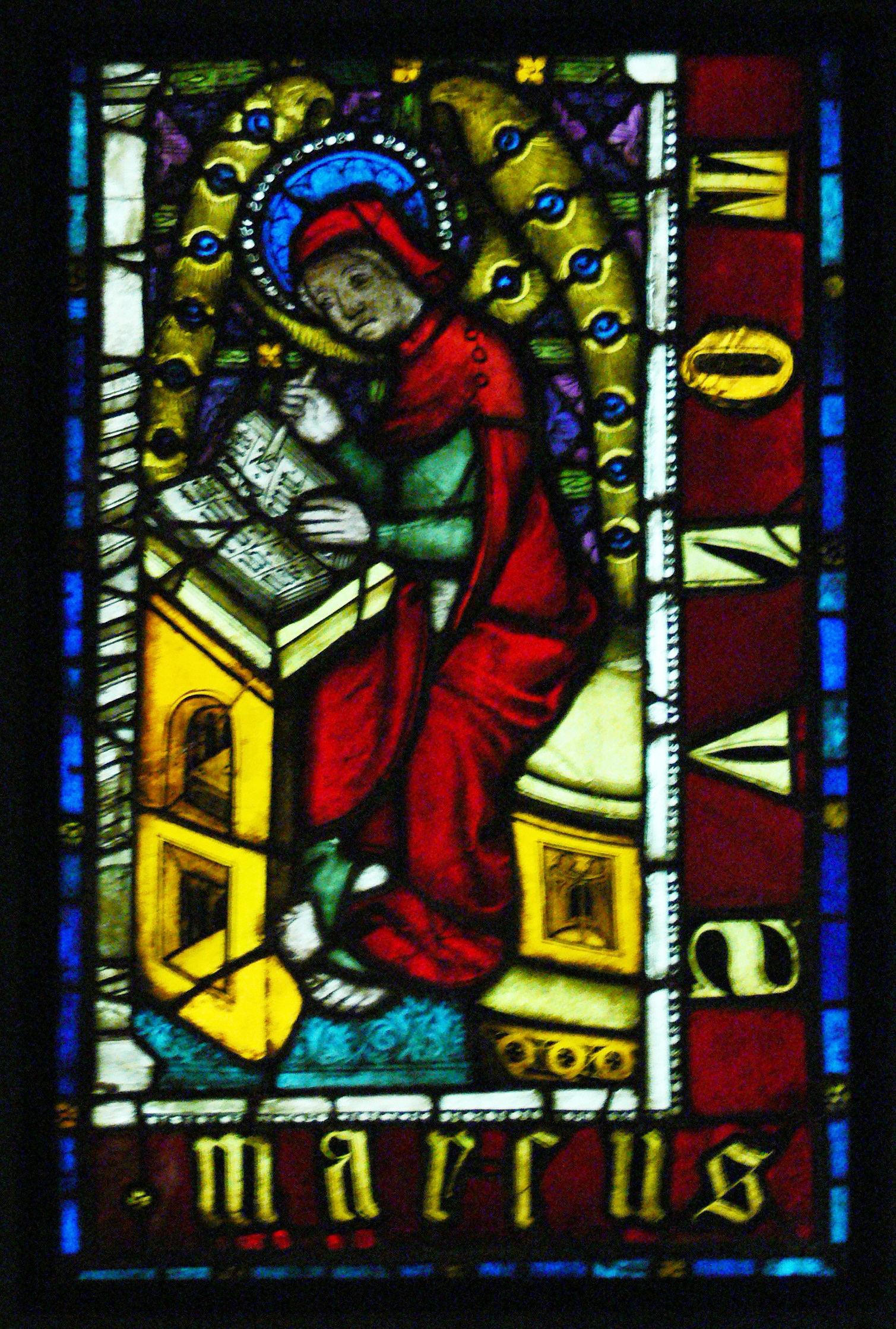 Munich, Bavarian National Museum (Bayerisches Nationalmuseum) Cathedral glass "St Marc", Erfurt Cathedral (Erfurter Dom), ~ 1380, No. G 925 (Translation of "Germam")